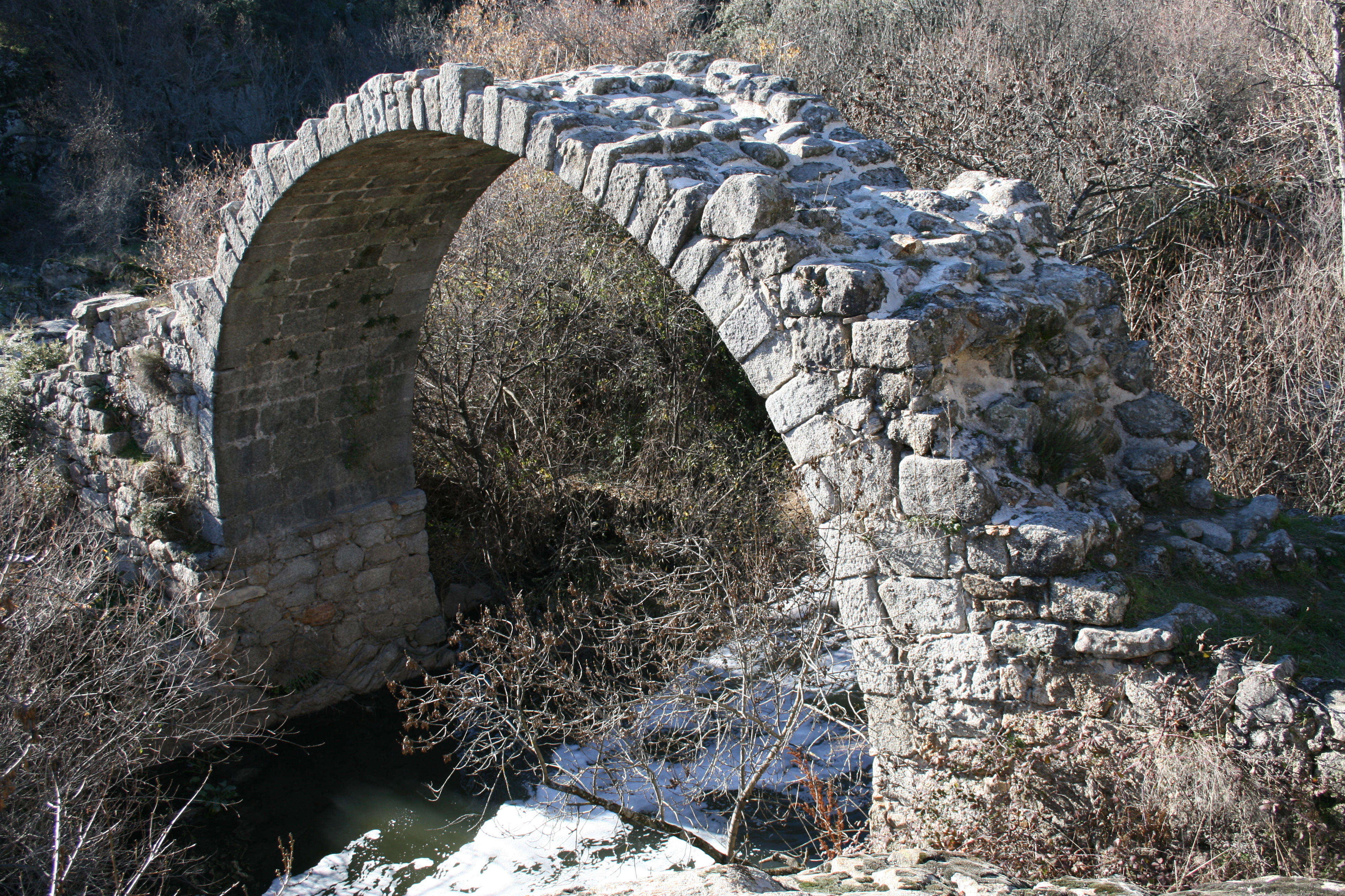 Bridge of Muslim origin (IX - XI centuries). Located between Torrelodones and Galapagar, on the Guadarrama river.